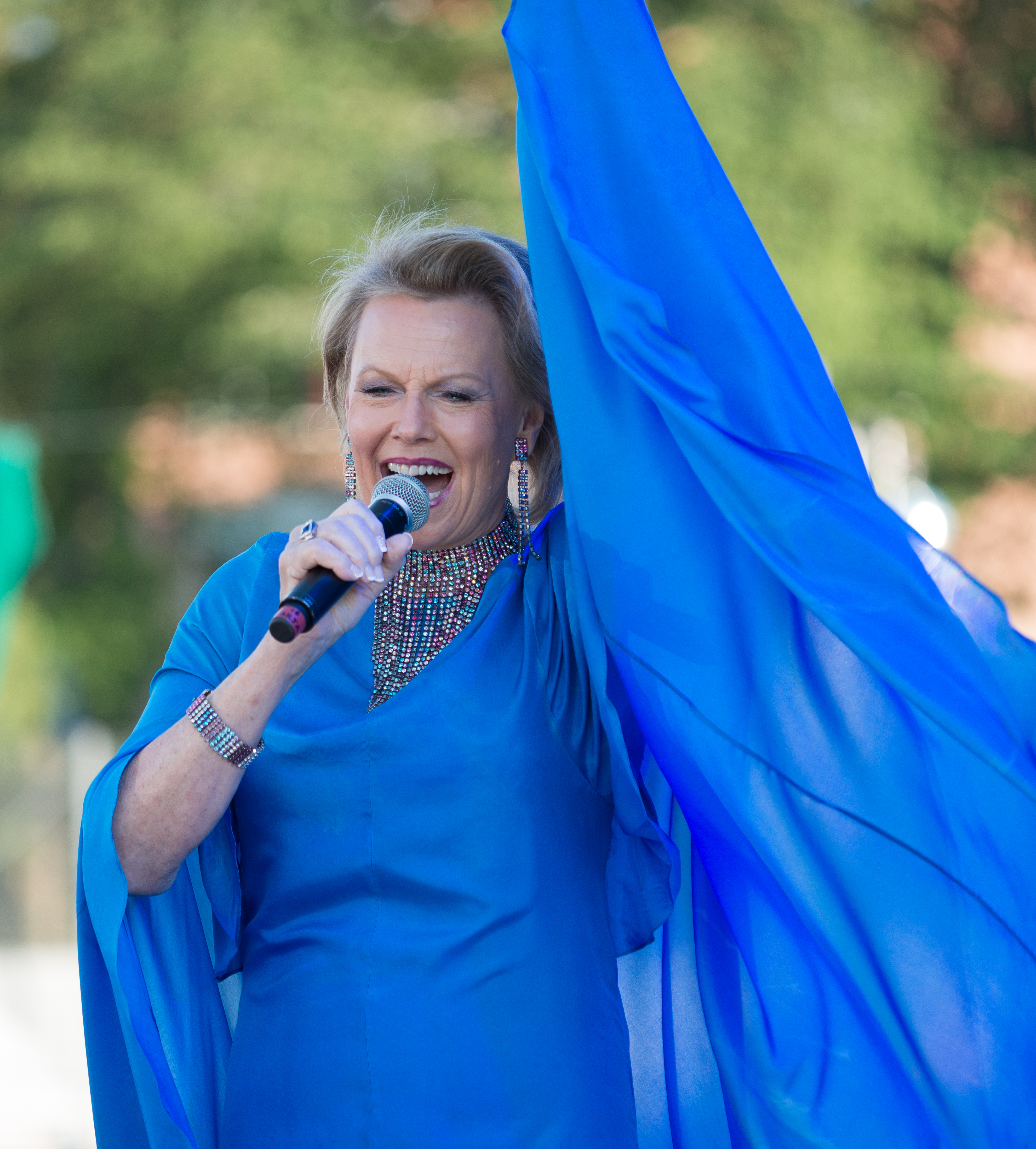 Arja Saijonmaa July 2014